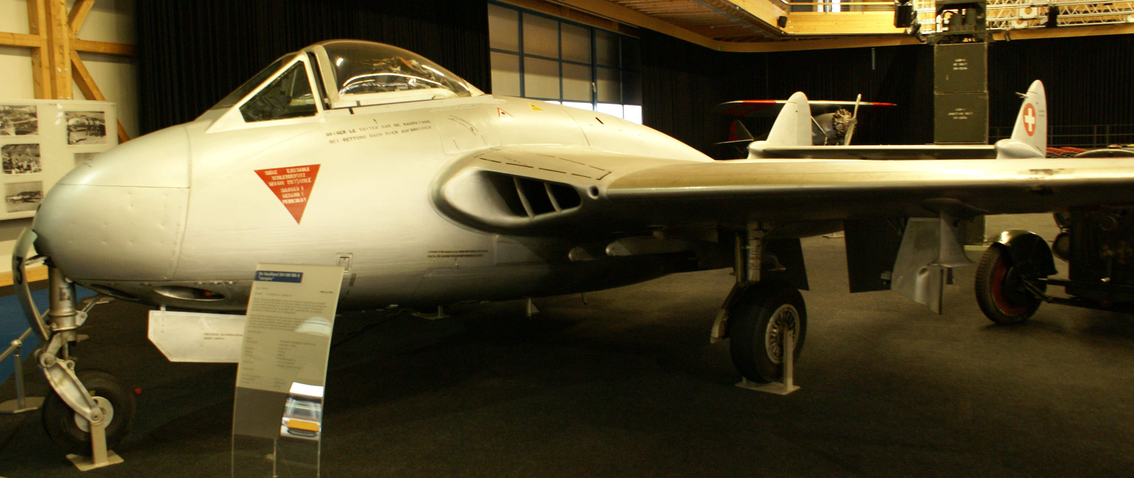 De Havilland DH-100 Mk 6 "Vampire" fighter aircraft as used by the Swiss Air Force from 1949 to 1967 and as a trainer until 1990.